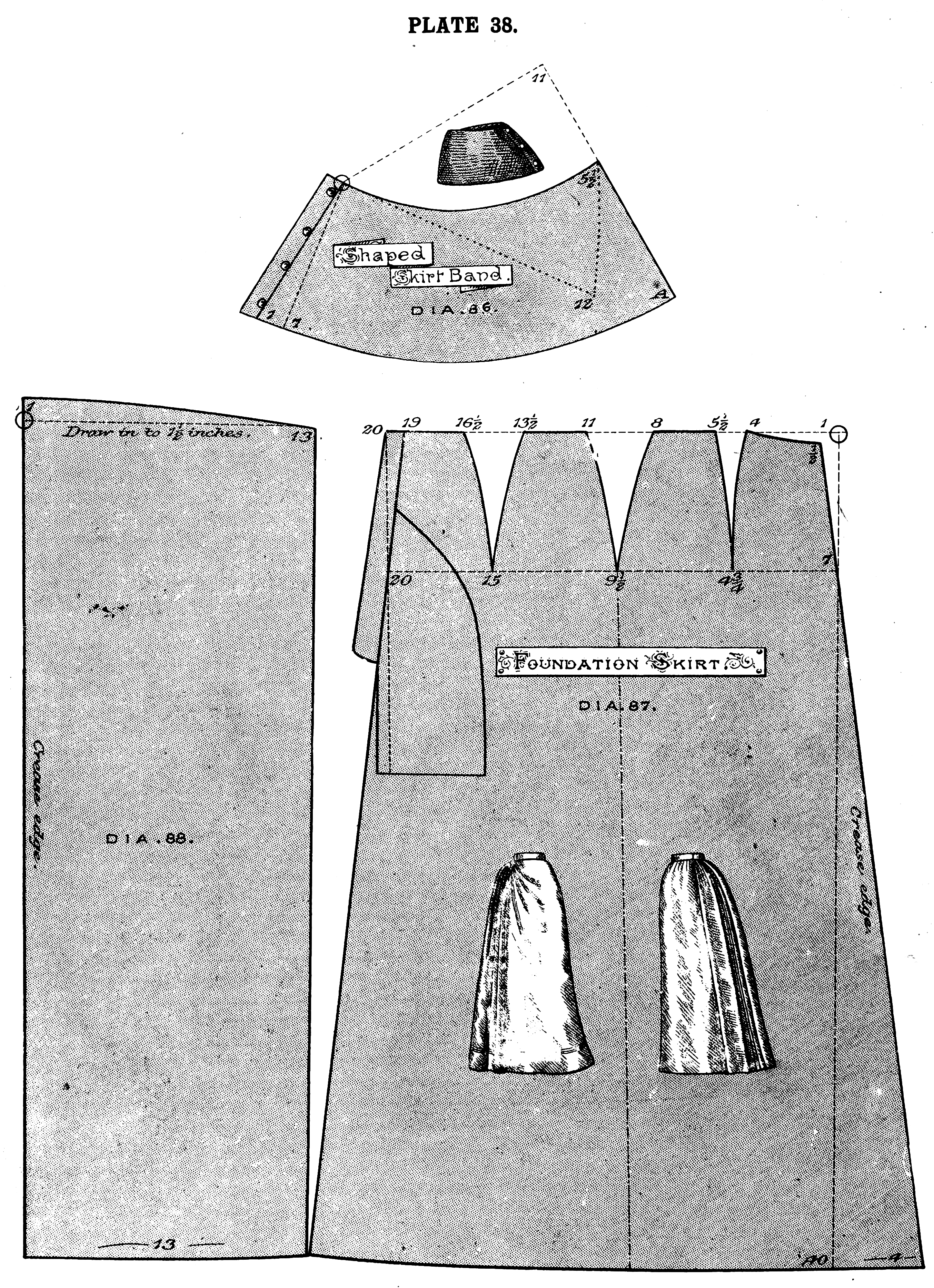 The cutters' practical guide to the cutting of ladies' garments